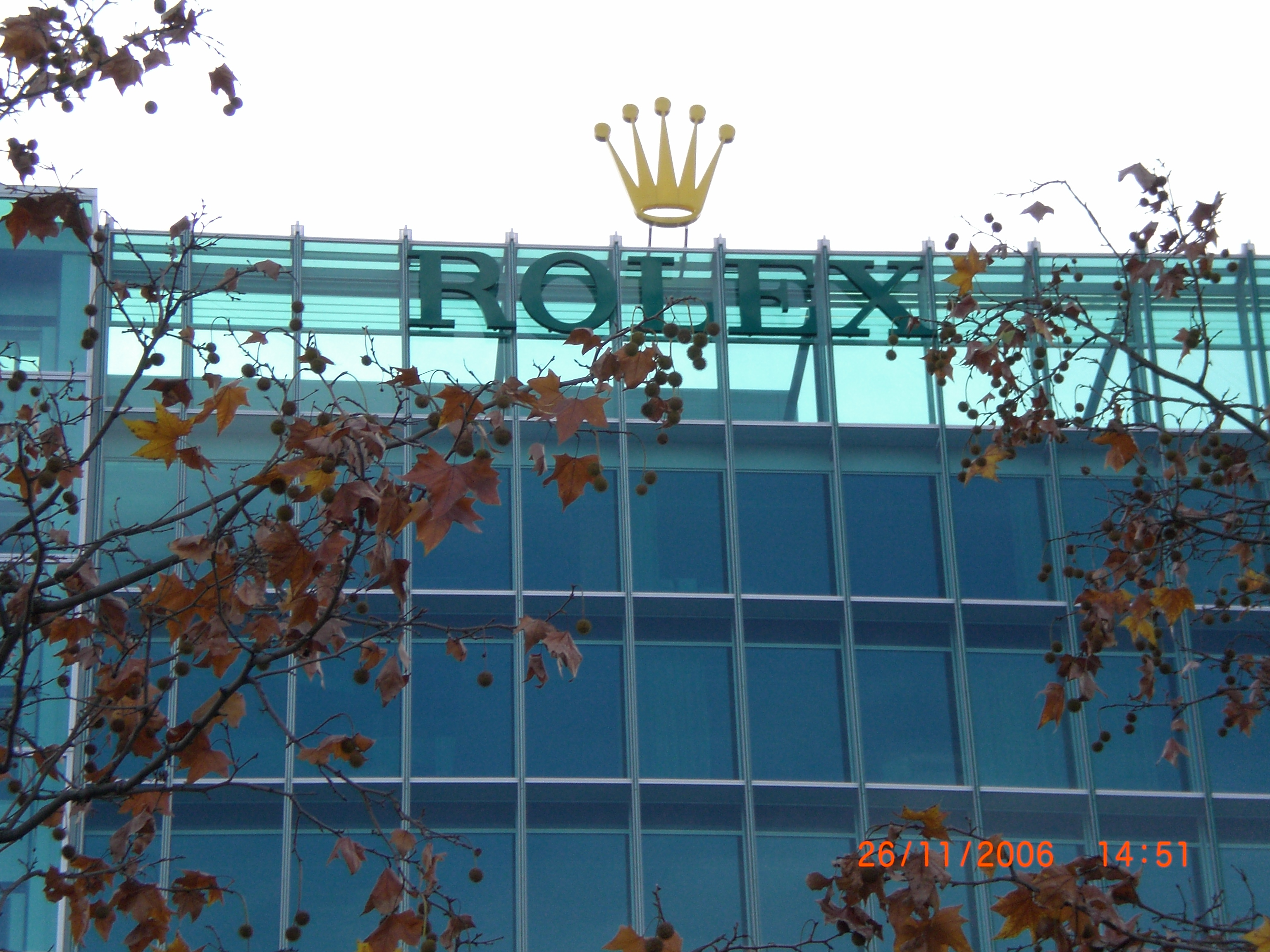 Rolex HQ building in Geneva, Switzerland